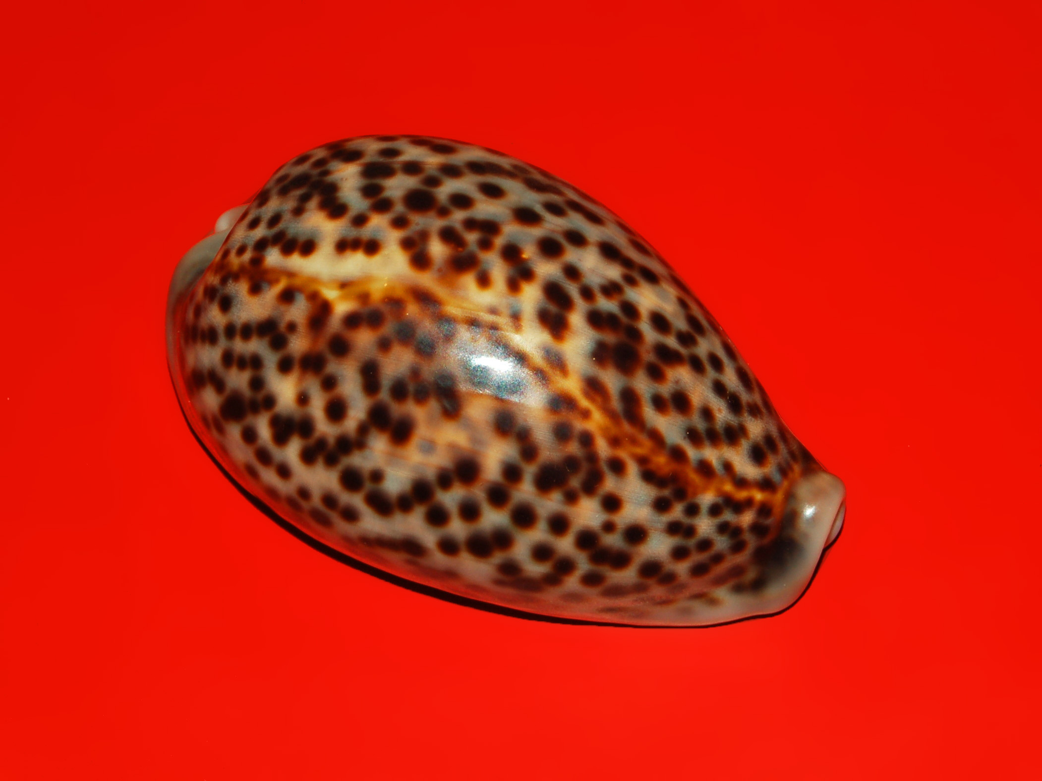 Cypraea pantherina - Sudan